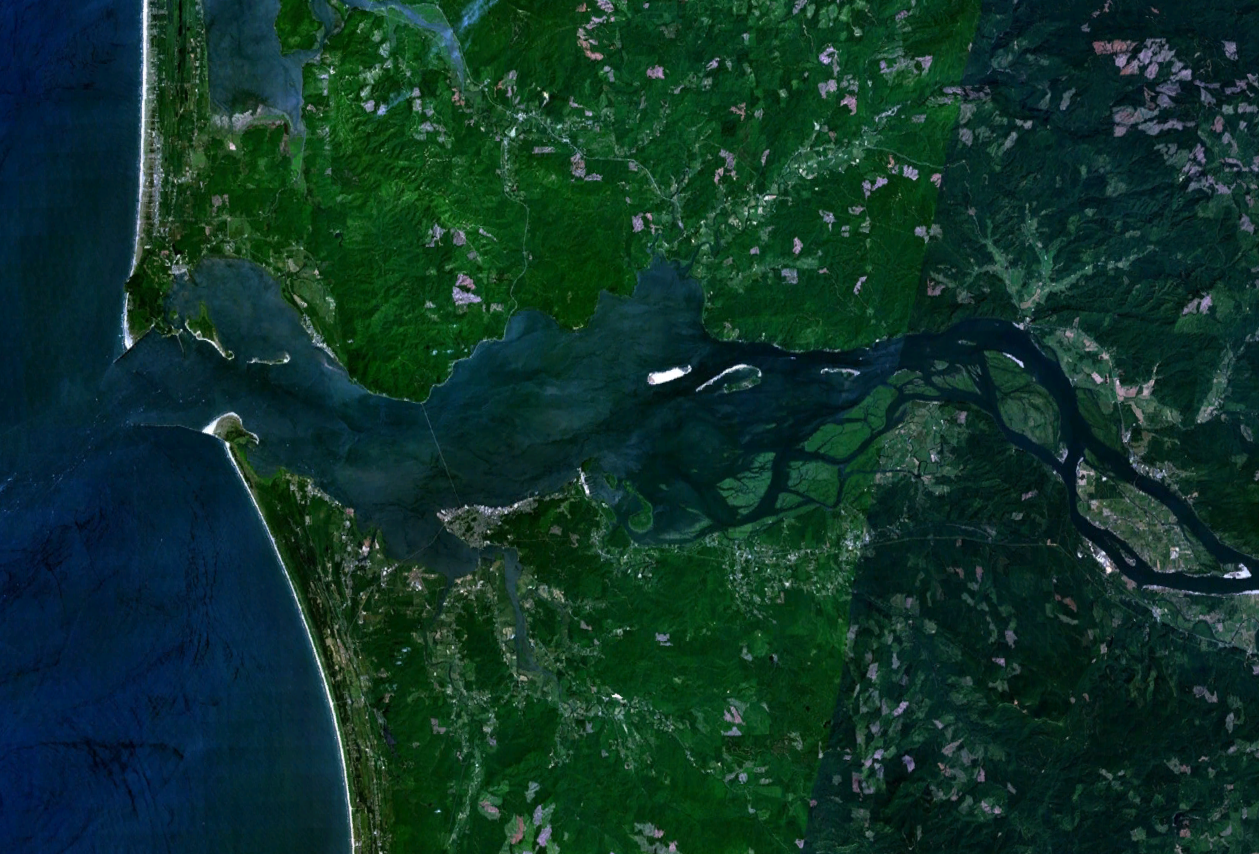 Satellite Image of the mouth of the Columbia River